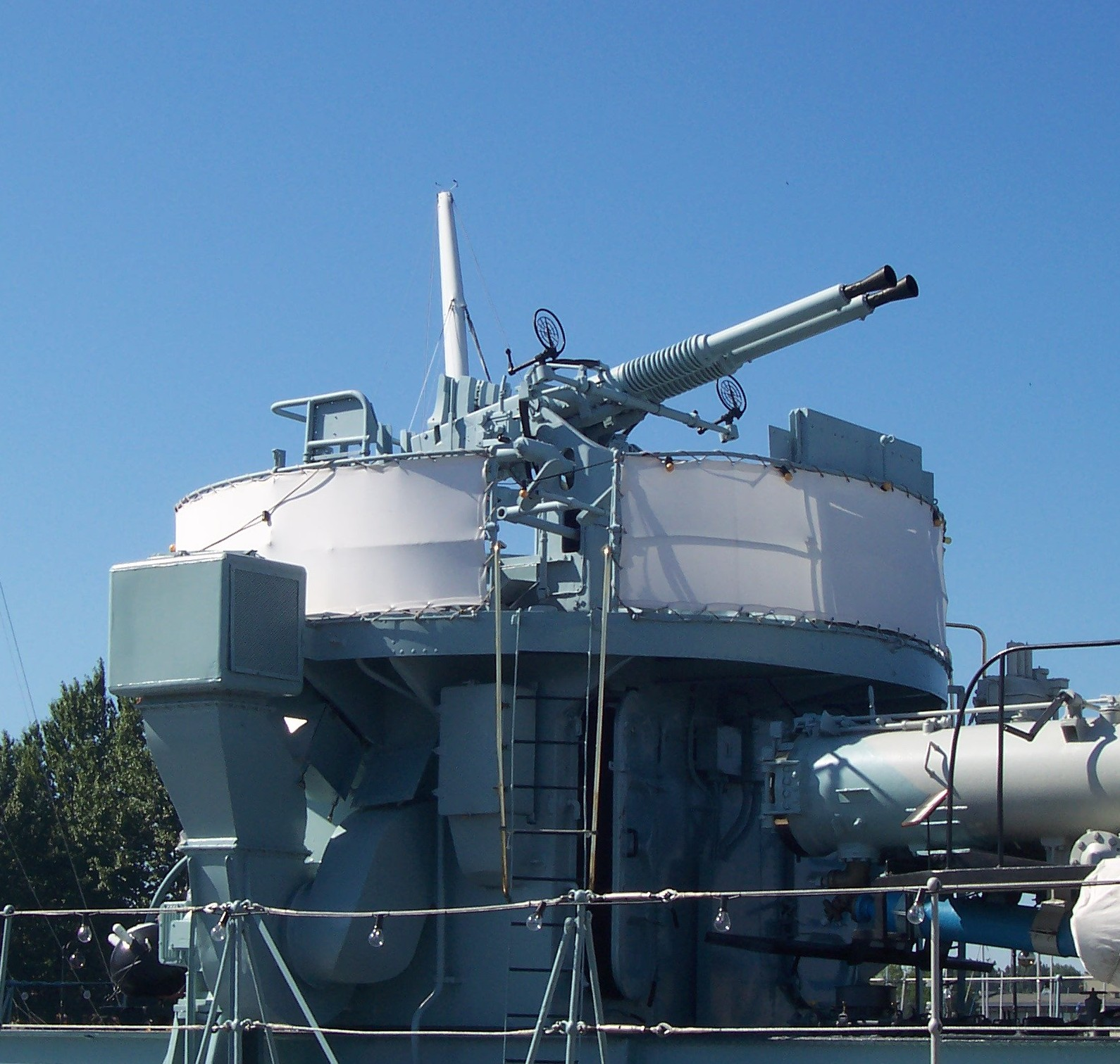 40 mm Bofors AA guns on the Polish destroyer ORP Błyskawica